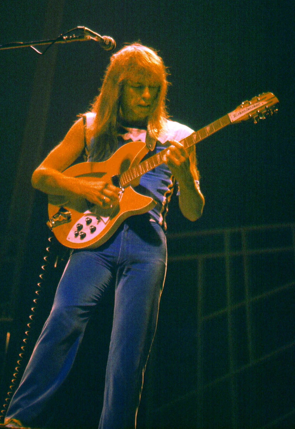 Steve Howe, lead guitarist for Yes, performing with the band in Indianapolis on August 30, 1977